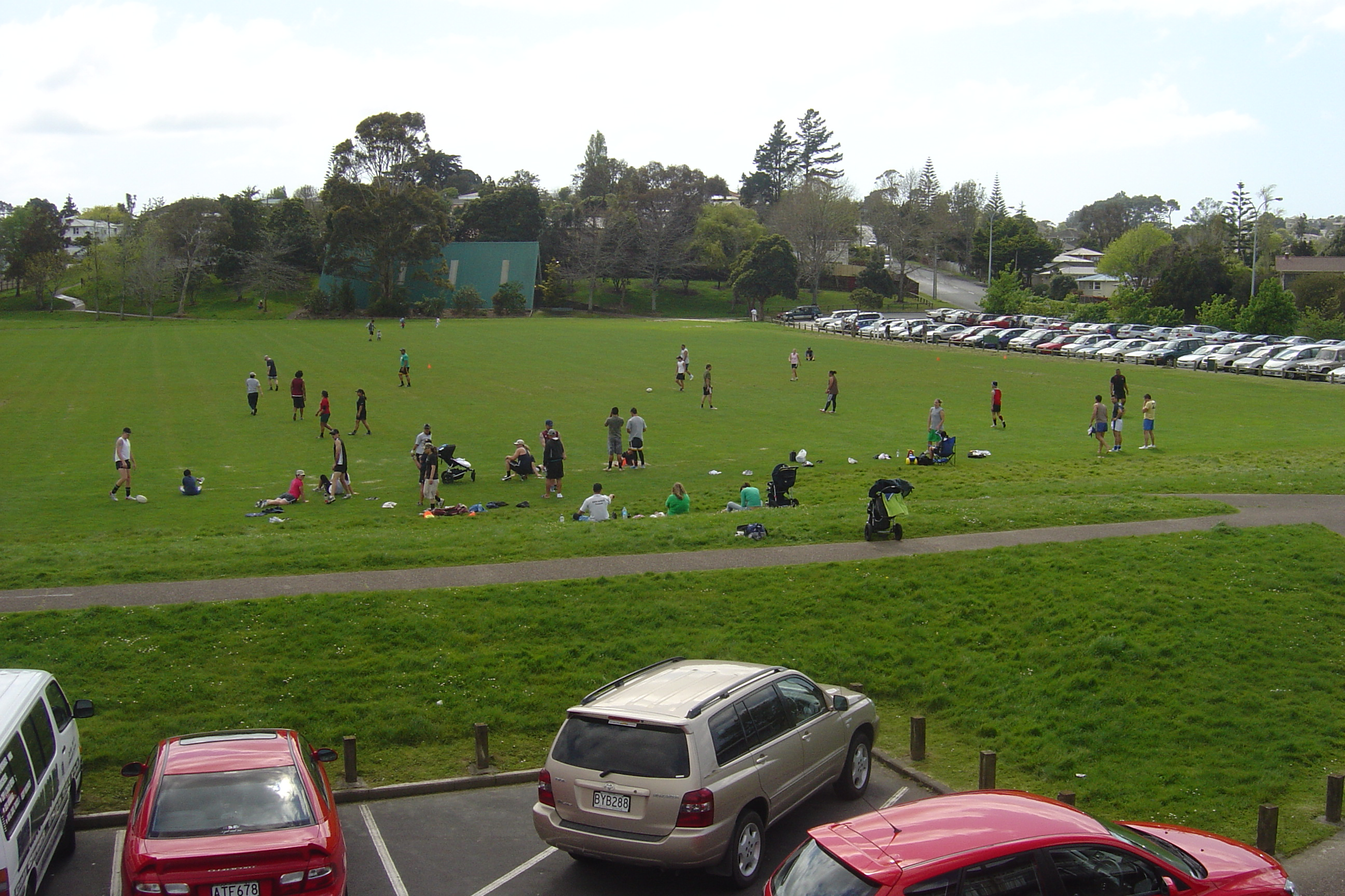 Playing touch football at Sunnynook Park on Auckland's North Shore